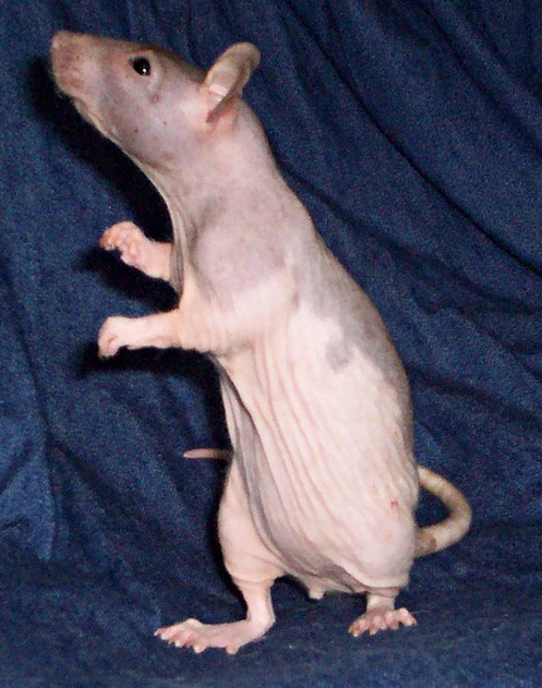 A hairless rat (R. norvergicus) named Lhassa. This image was cropped and sharpened from the original in order to focus on the subject.